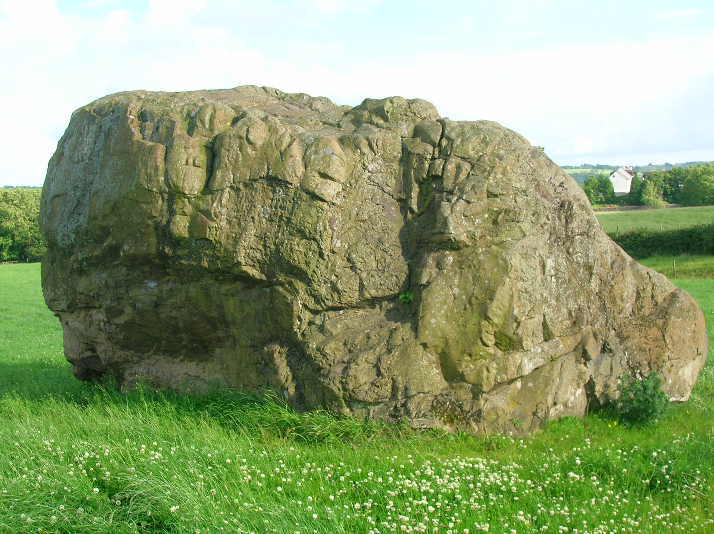 The Clochoderick Stone - a rocking stone and burial site of Rhydderch Hael.